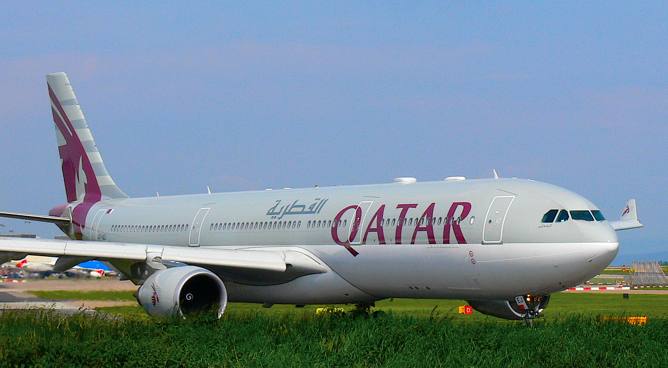 Qatar Airlines at Manchester Airport